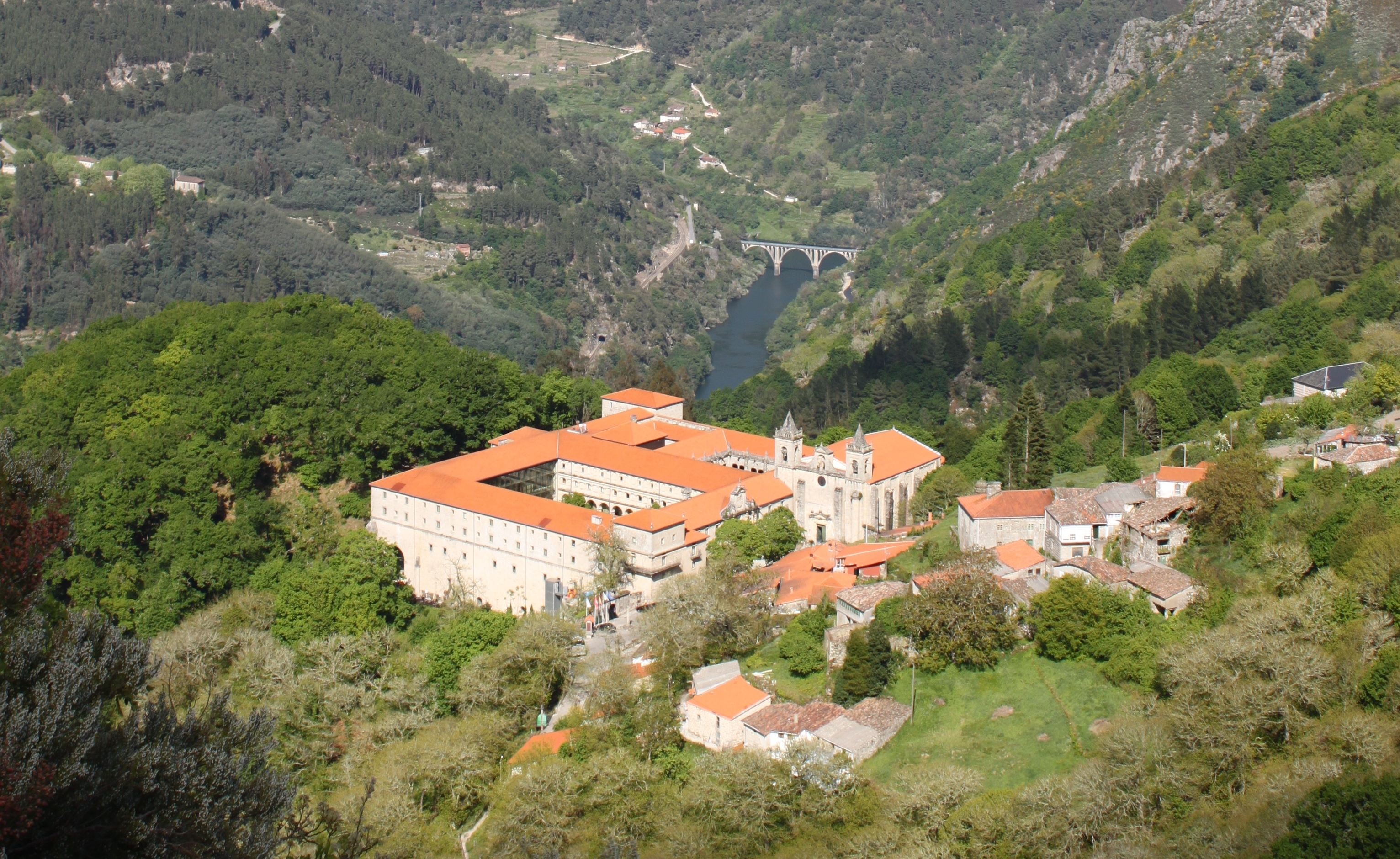 Monastery of Santo Estevo de Ribas de Sil - cropped